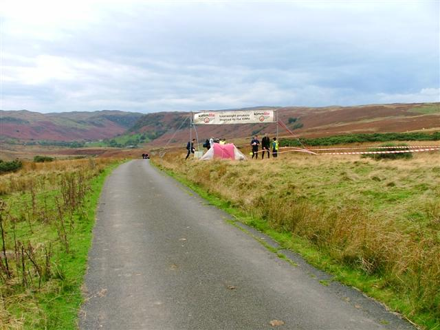 Road to Swindale. Looking SSW from the crossroads on Rosgill Moor down into Swindale. The area was used for one of the overnight camps in the 2005 Karrimor International Mountain Marathon.